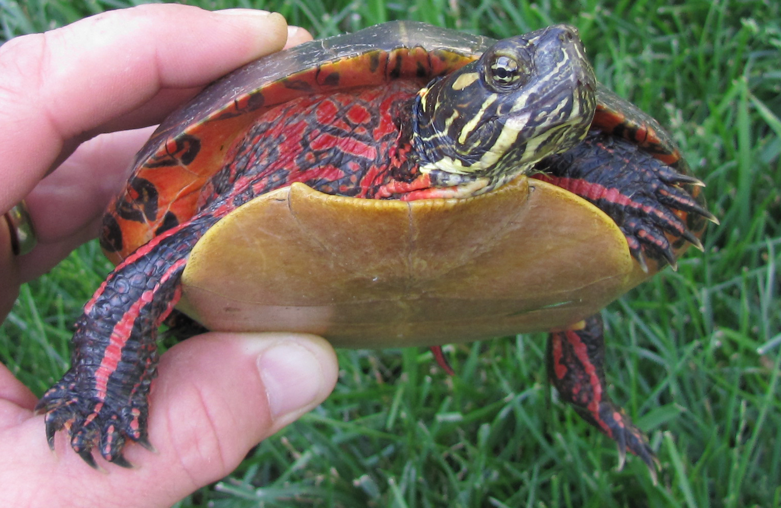 Picture of painted turtle (not red-belly) taken in Pomp's Pond in Andover, Massachusetts on June 11, 2012